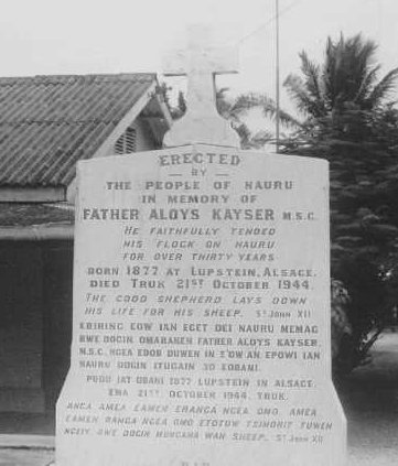 Monument in memory of father Alois Kayser priest on the Island Nauru he died during the japanese occupation in Truk (cropped version)